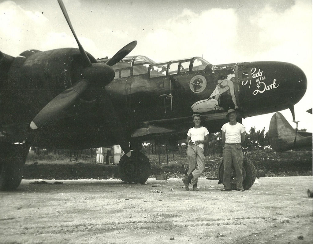 548th Night Fighter Squadron Lady Of The Dark